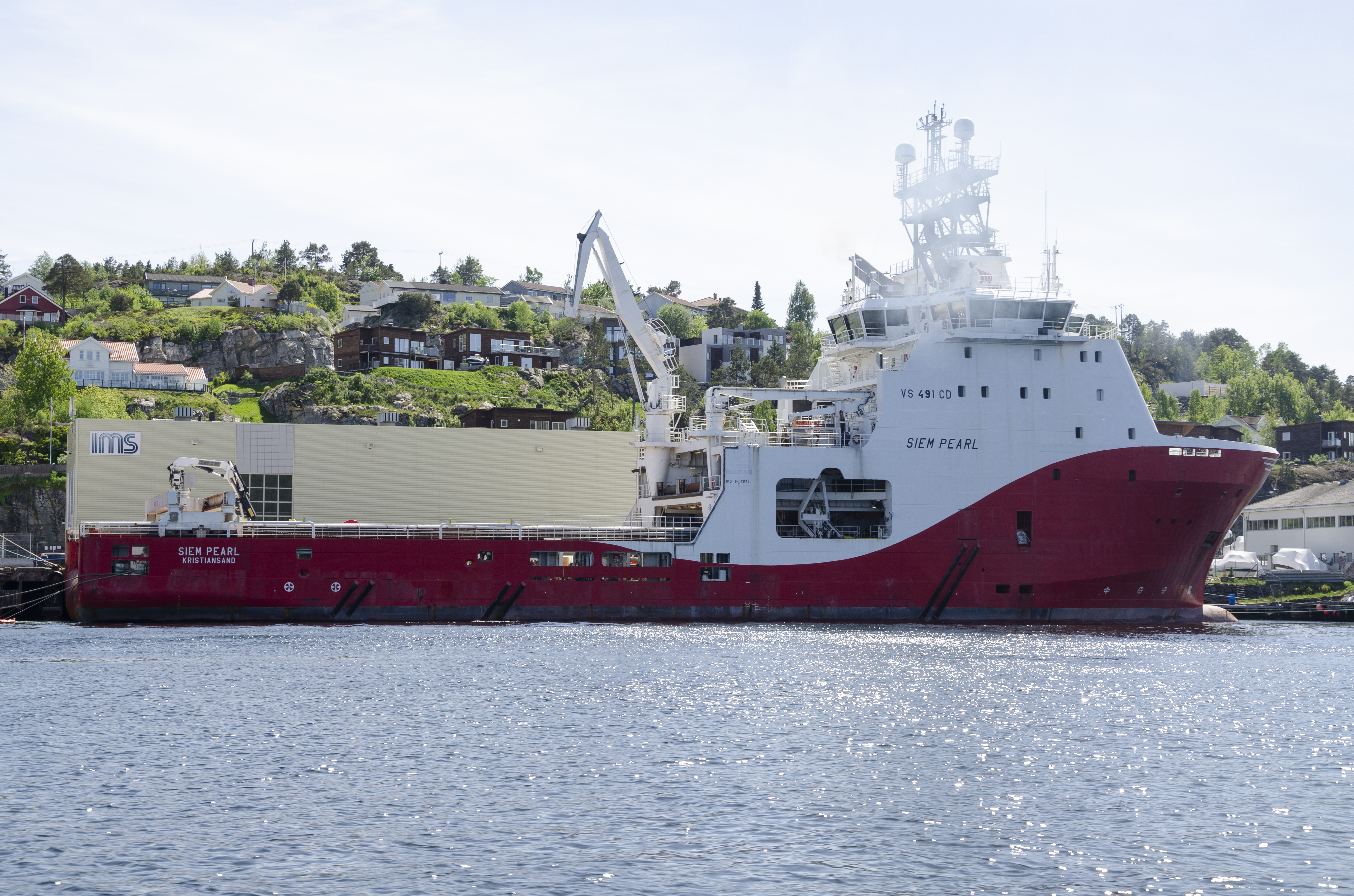 Offshore supply vessel "Siem Pearl" moored in Risør, Norway.